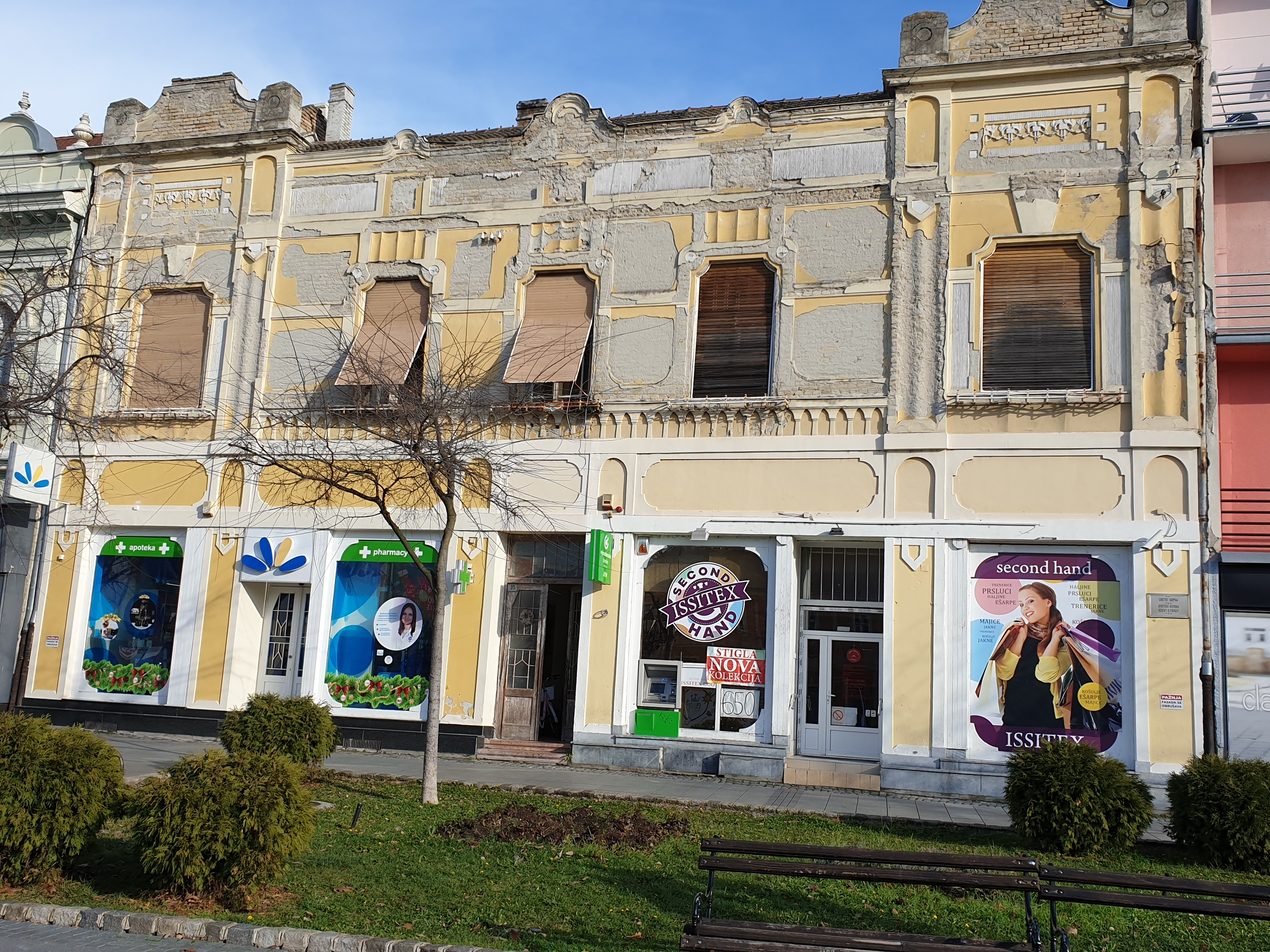 Palata dr Sime Pavlovića